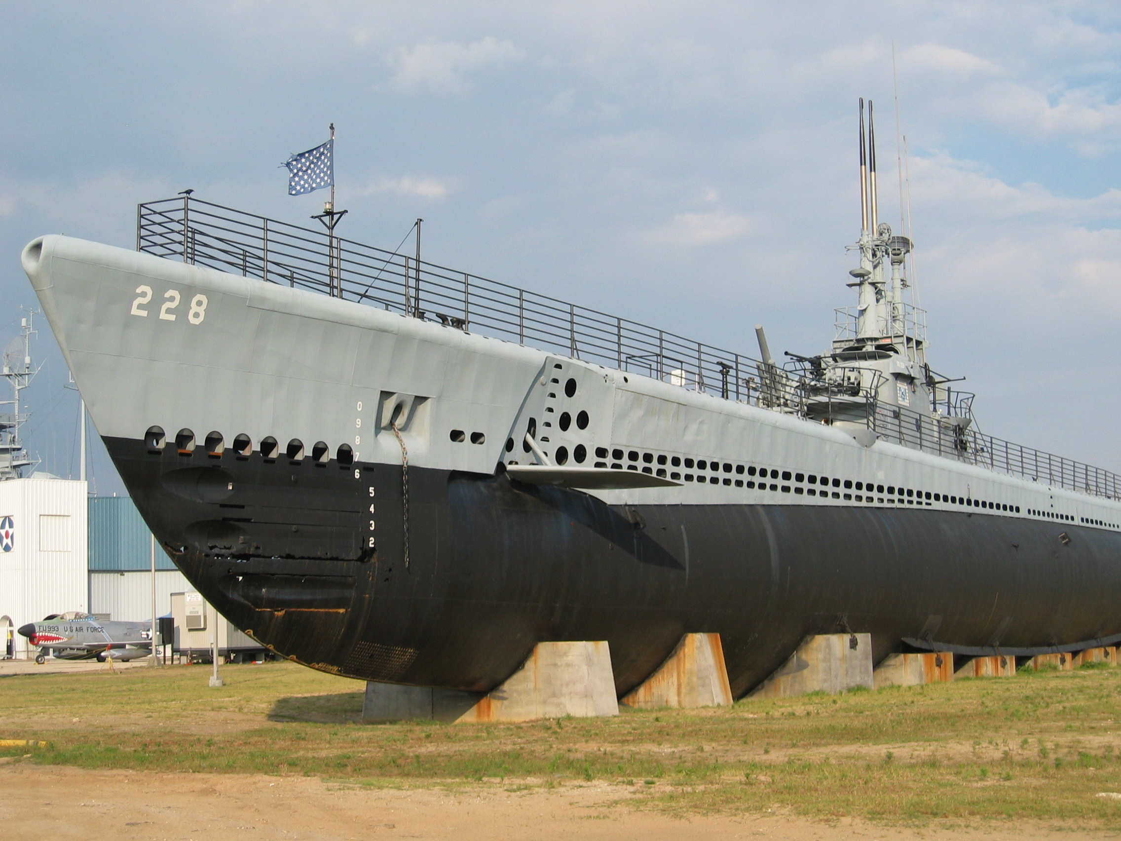 USS Drum SS-228 in the Battleship Memorial Park, Mobile, Alabama.